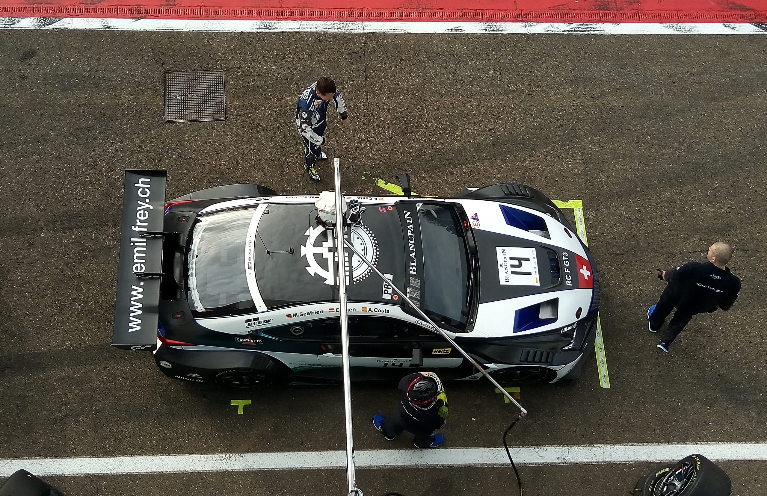 The Emil Frey Racing Lexus RC F GT3 team preparing for pitstop practice with Christian Klien.